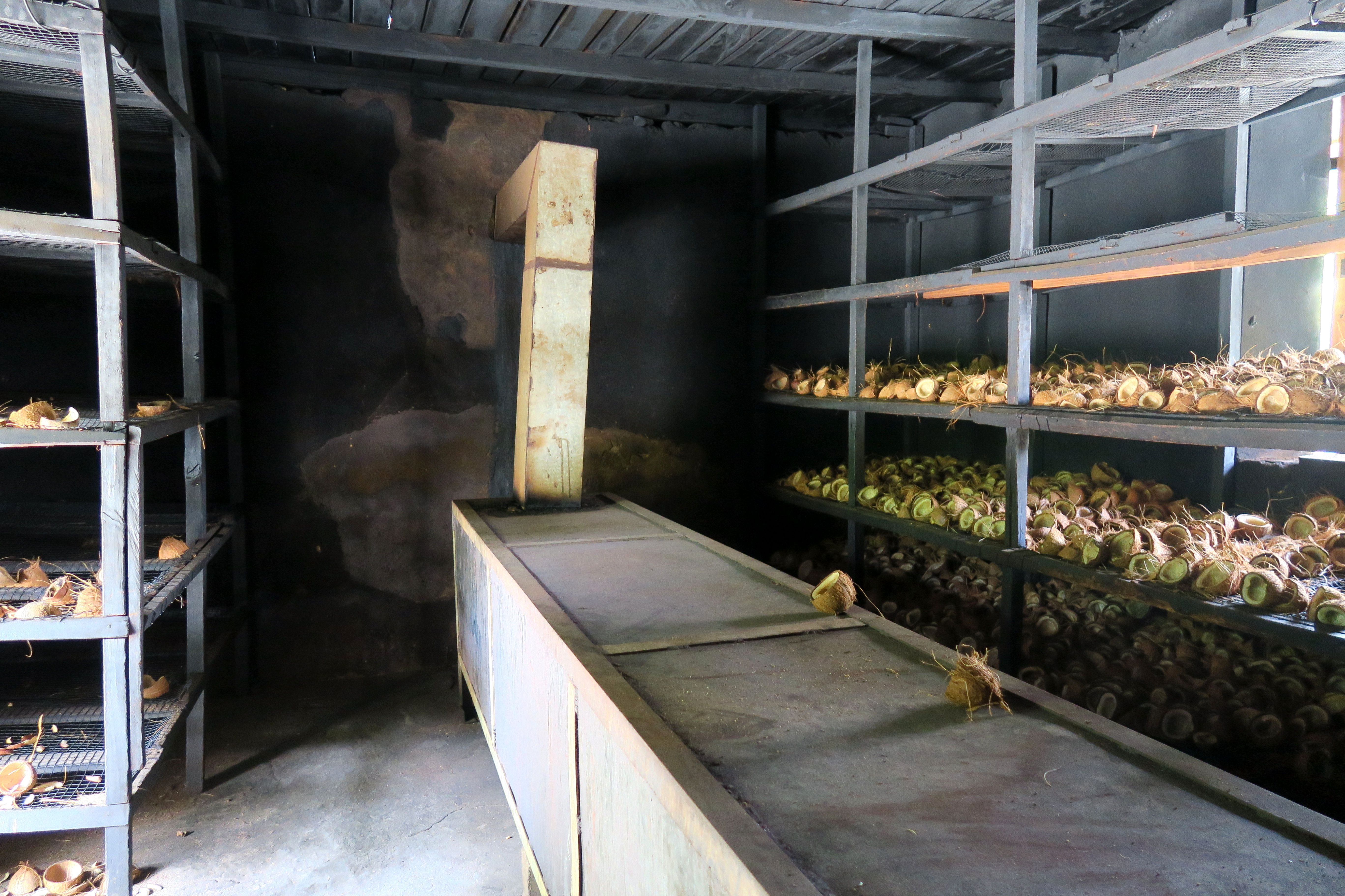 Copra kiln drying in La Digue (Seychelles).